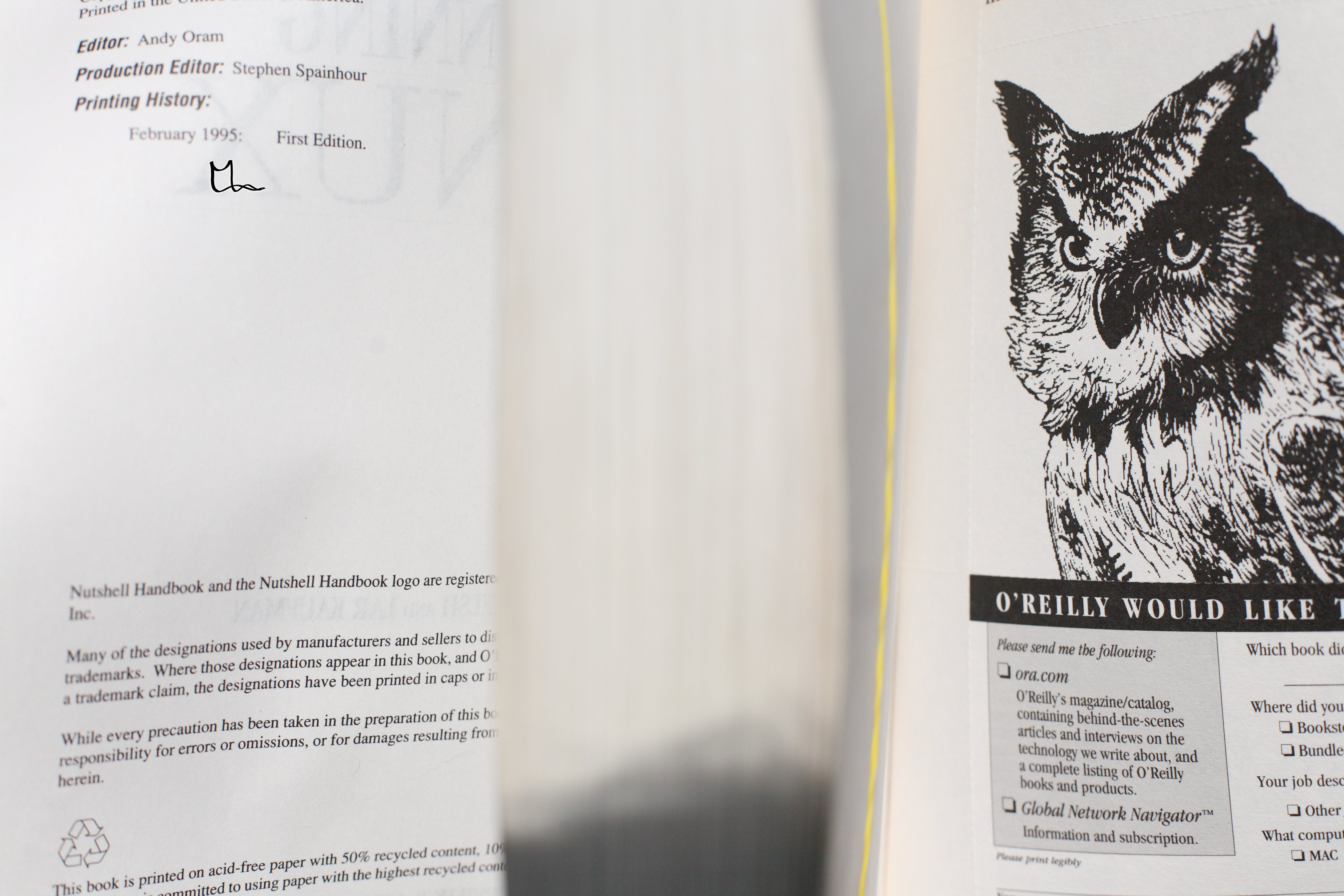 A 1995 example of Permission Marketing. A business reply postcard as the last page of a book.